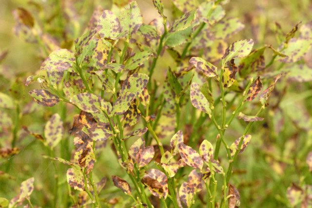 Valdensia heterodoxa from Commanster, Belgium. If you think this is a different taxon, please contact James Lindsey.